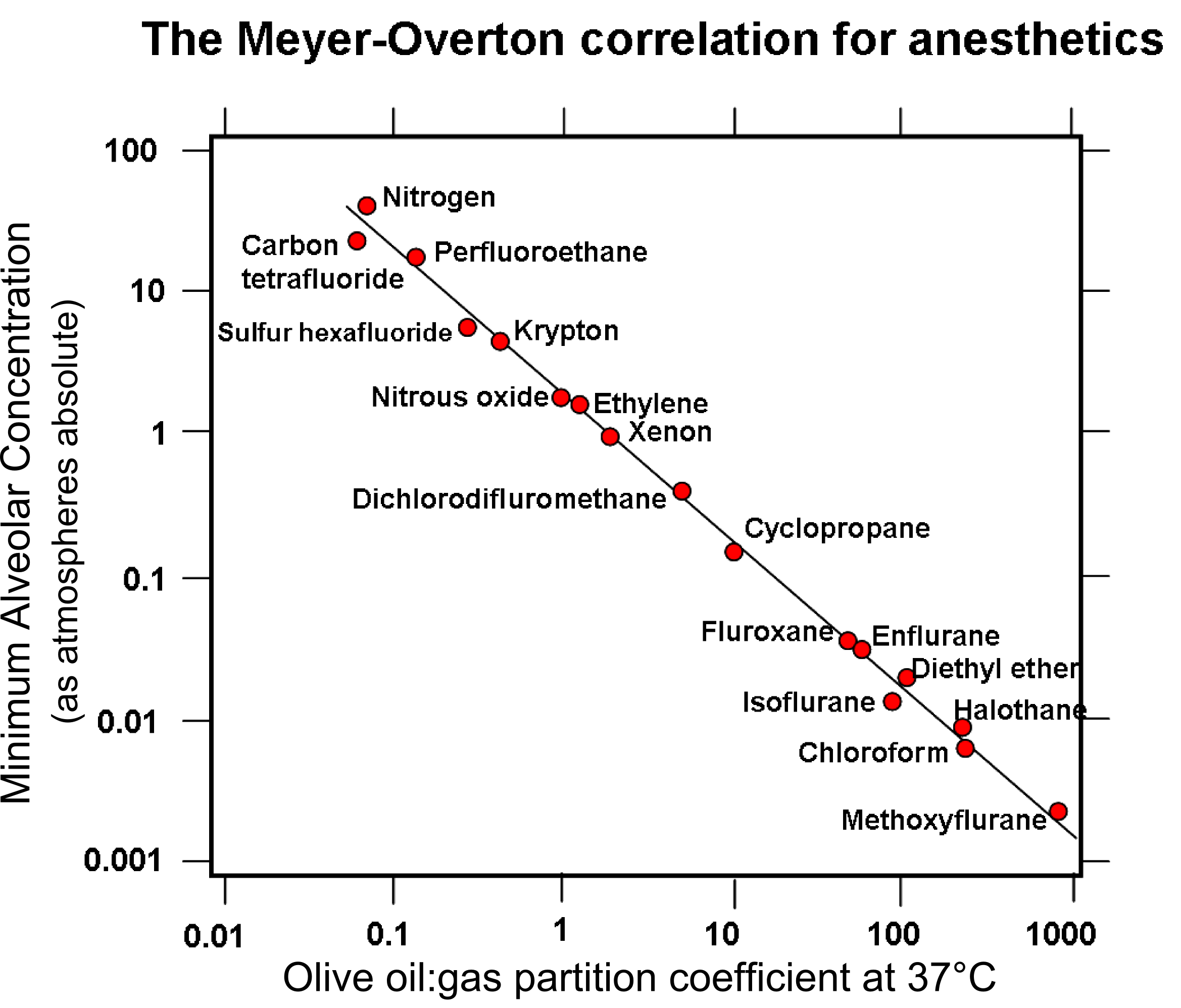 The Meyer-Overton correlation for anesthetics